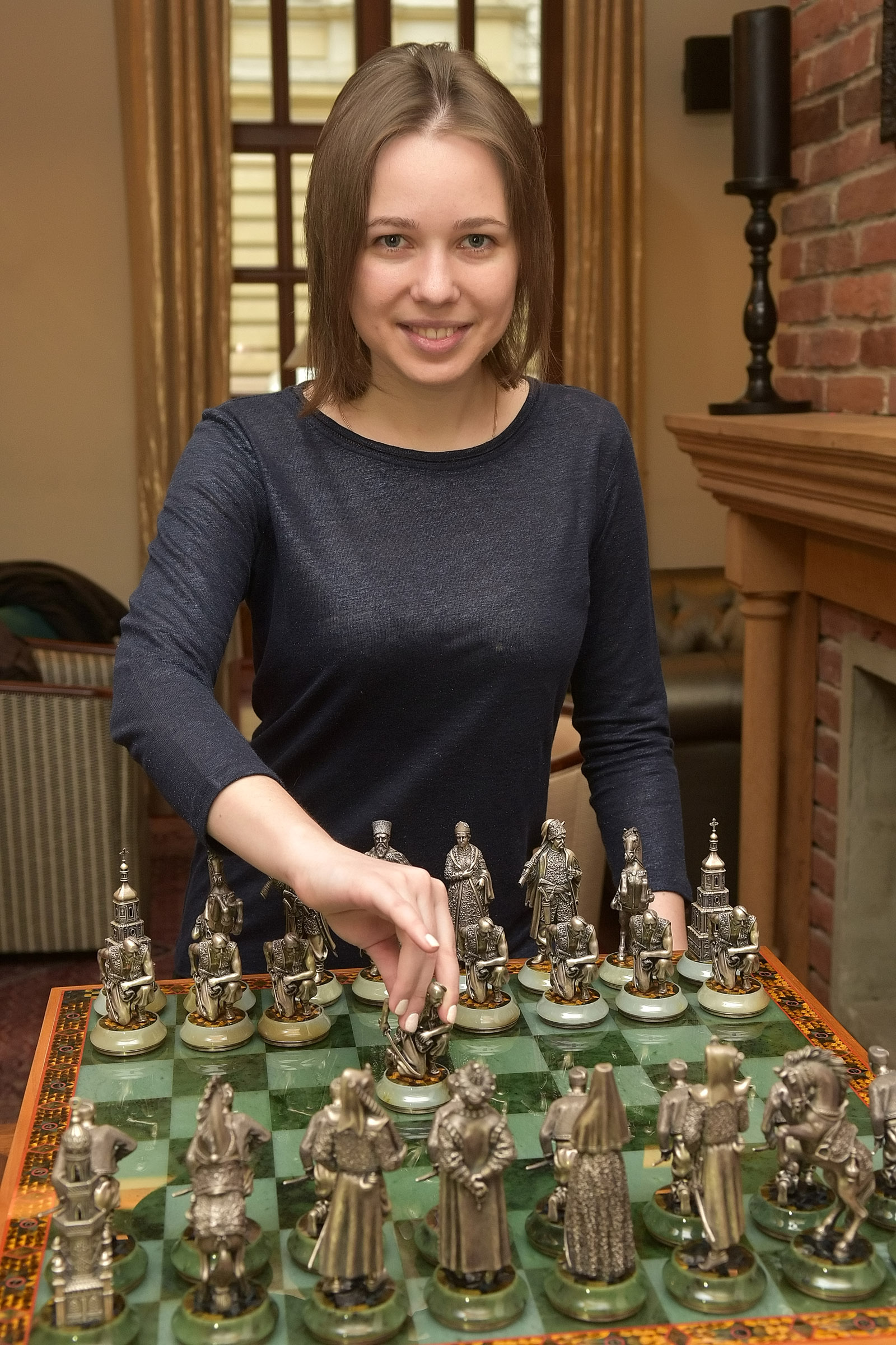 Mariya Muzychuk, Ukrainian chess player and Women's World Chess Champion from April 2015 to March 2016. The chess pieces are styled with the Ukrainian cossacks theme. Photo taken in Leopolis Hotel, Lviv, Ukraine